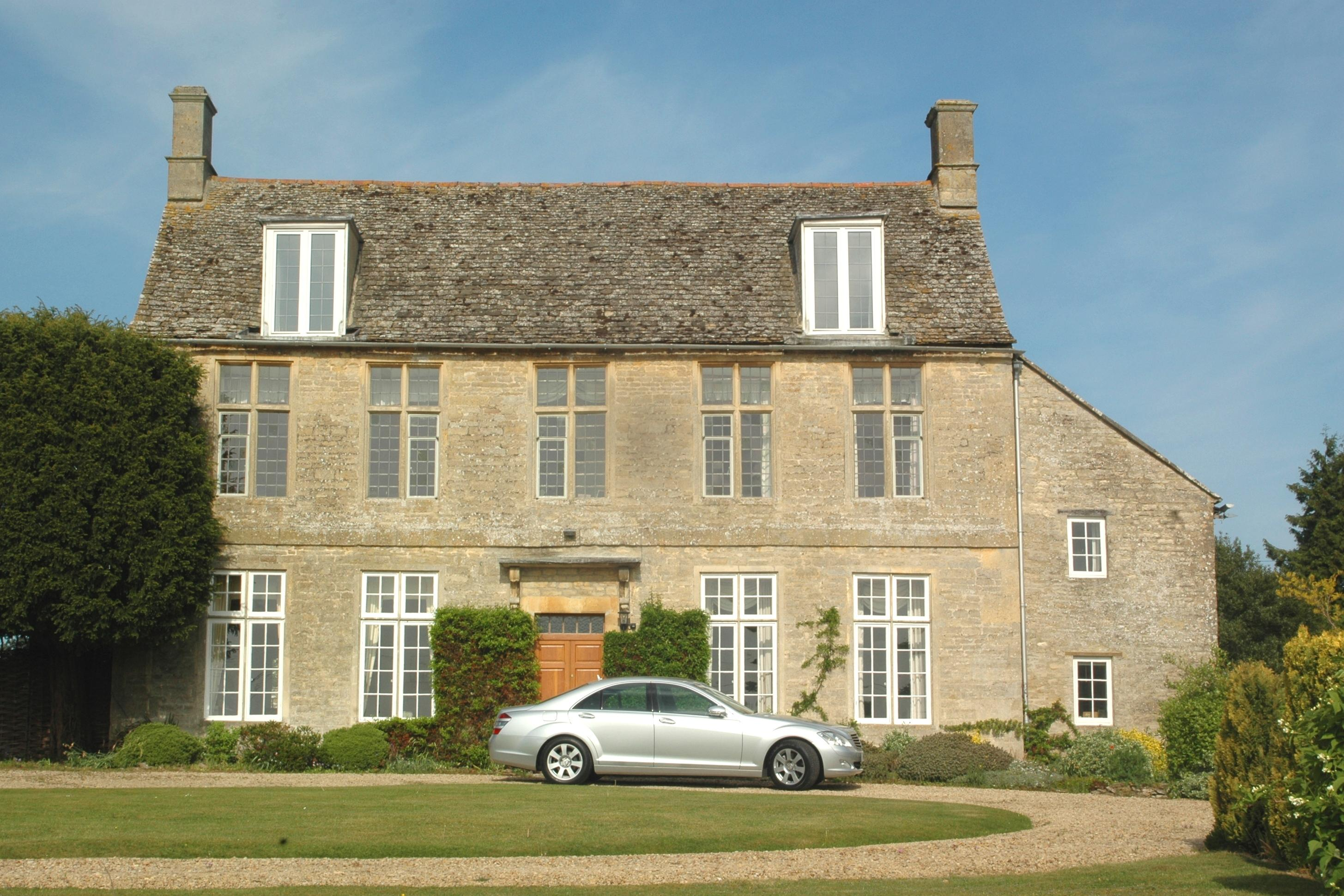 Former vicarage at North Leigh, Oxfordshire, built in the 17th century and rebuilt about 1726